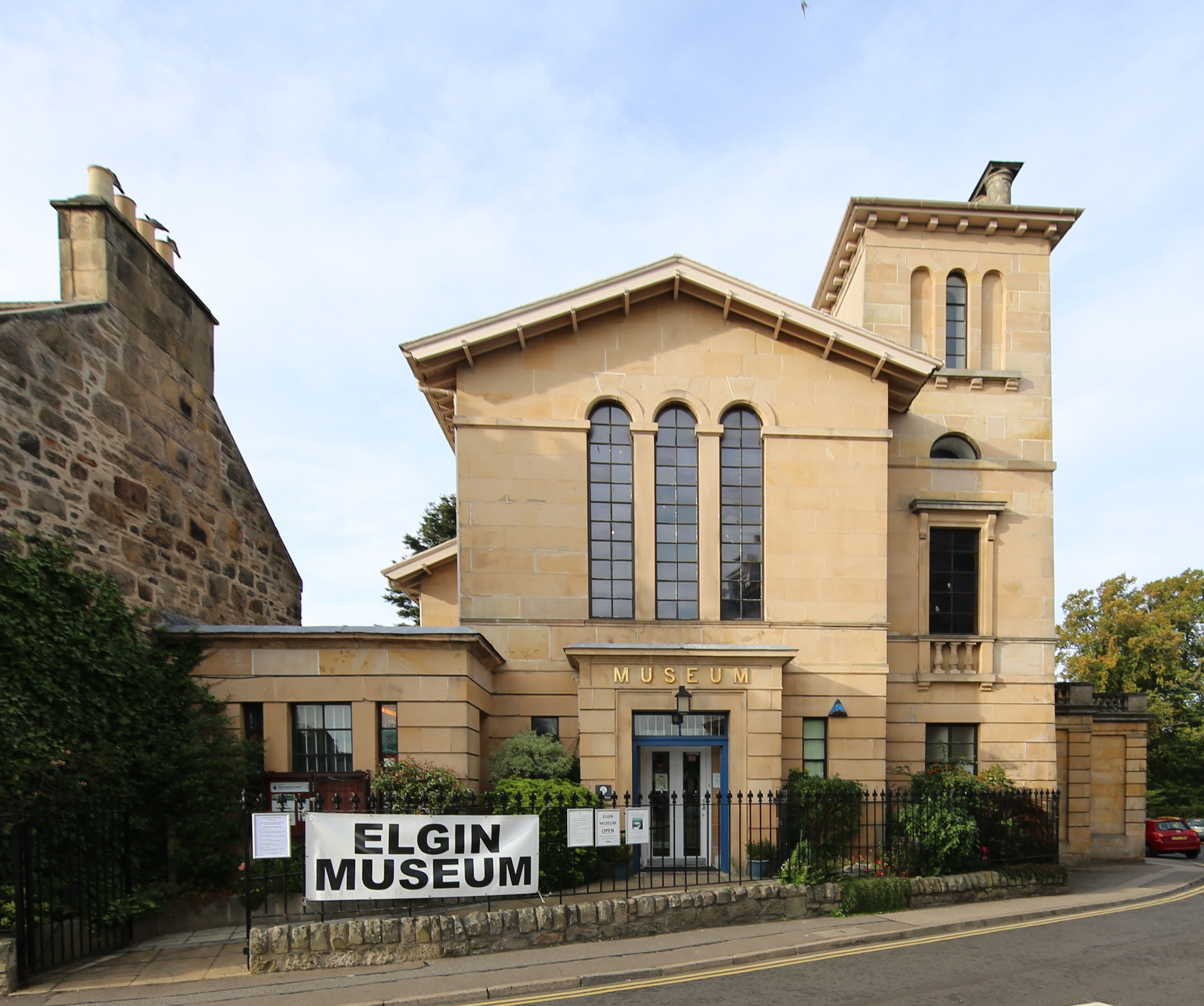 Photo of the front exterior of the Elgin museum in Elgin, Moray, scotland